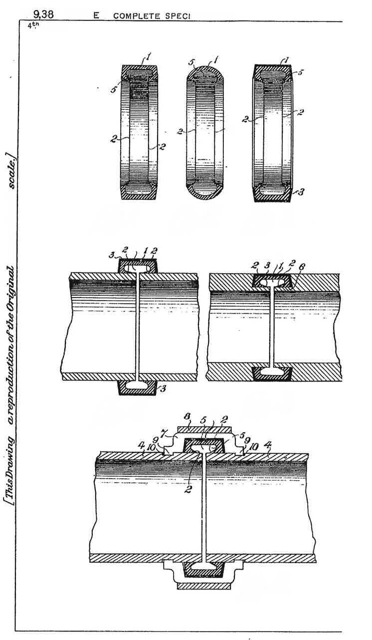 Victaulic Patent filed on April 4, 1919 by Ernest Tribe.